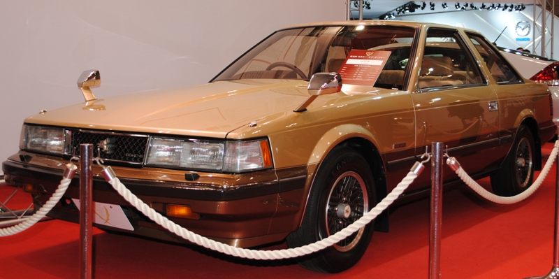 Toyota Soarer.